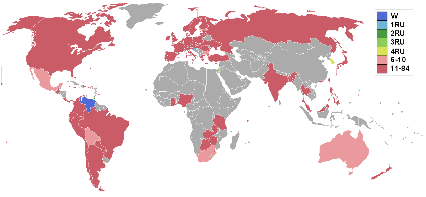 image created by Joey80